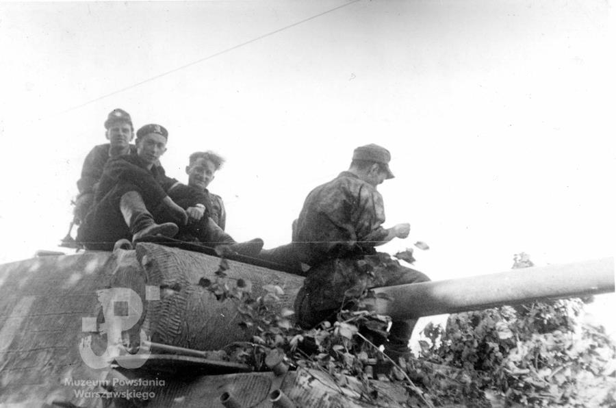 Warsaw Uprising: Polish soldiers of tank platoon "Wacek" of ""Zośka" Battalion on a German Panther tank around Okopowa Street. From the left: Mieczysław Kijewski "Jordan", Eugeniusz Romański "Rawicz", Jan Myszkowski-Bagiński "Bajan" and Zdzisław Moszczeński "Ryk" (backward).